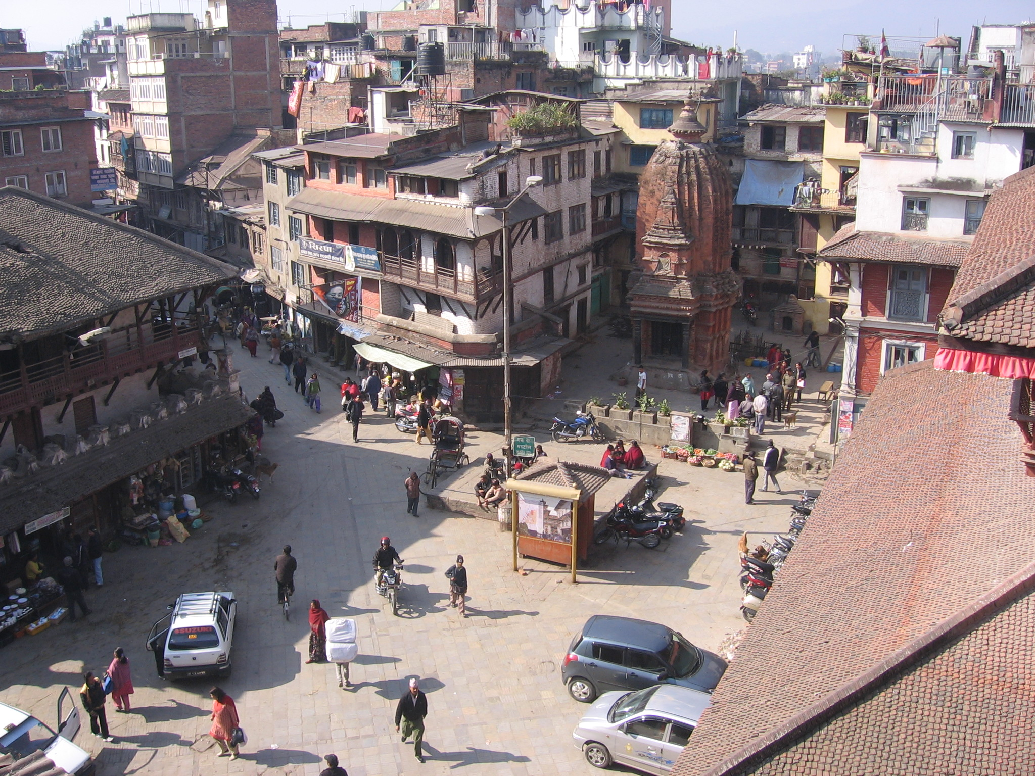 Bird's-eye view of Maru square and the courtyard of Gakuti and Mahadev Temple in the background, Kathmandu.